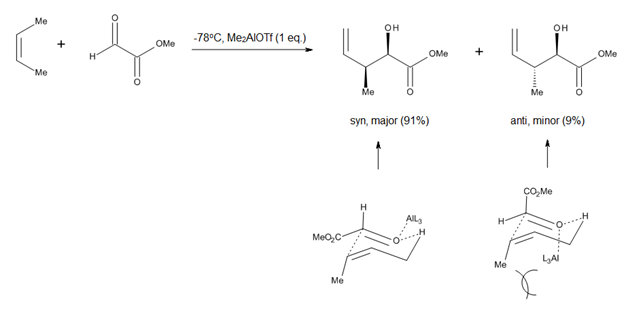 late TS